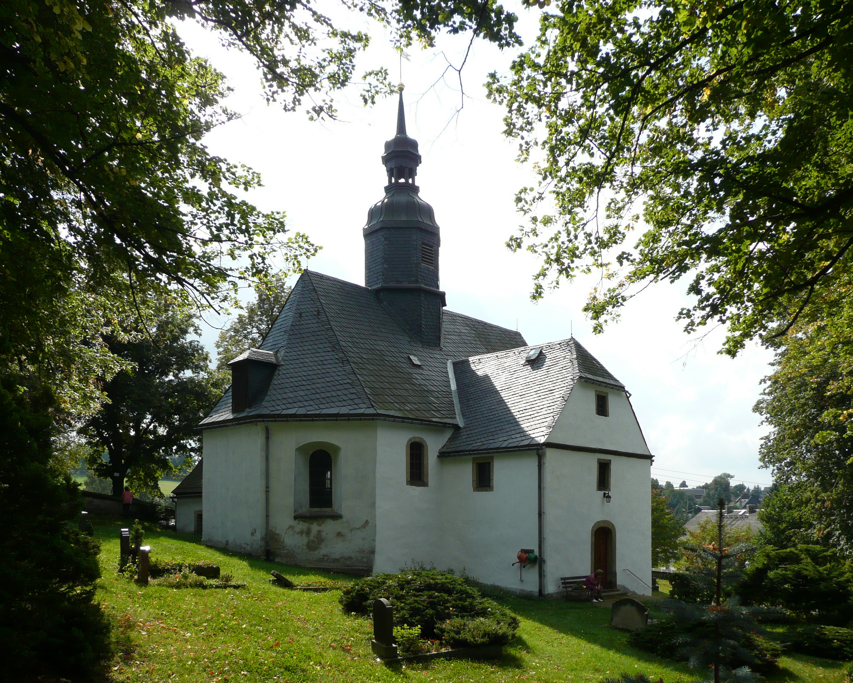 This image shows the evangelich church in Oelsen near Bad Gottleuba-Berggießhübel.